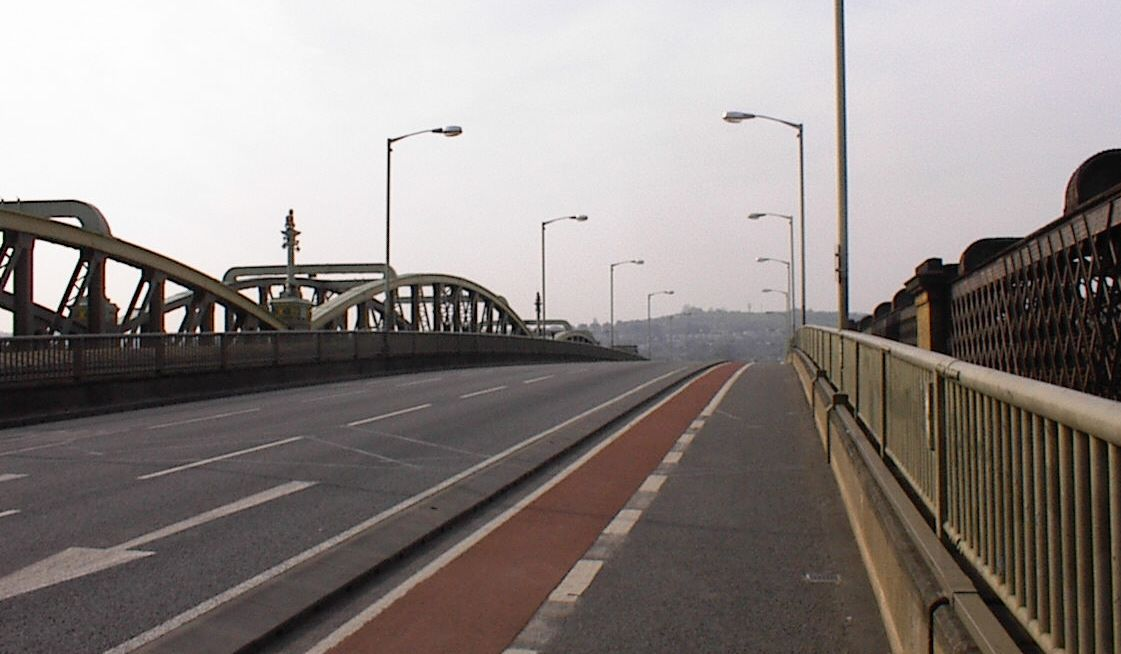 Rochester Bridge, Kent, southeast England, looking east towards Strood. This is in fact three bridges: the left-most carries the east-bound A2; the central bridge (main part of pic) carries the west-bound A2; and the right-most carries the combined North Kent railway line and main Chatham railway line in both directions.